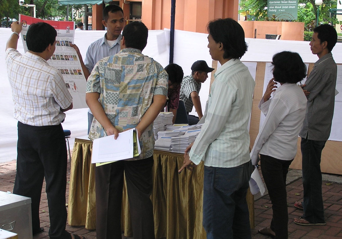 The public counting of the votes in the 2009 Indonesian legislative elections